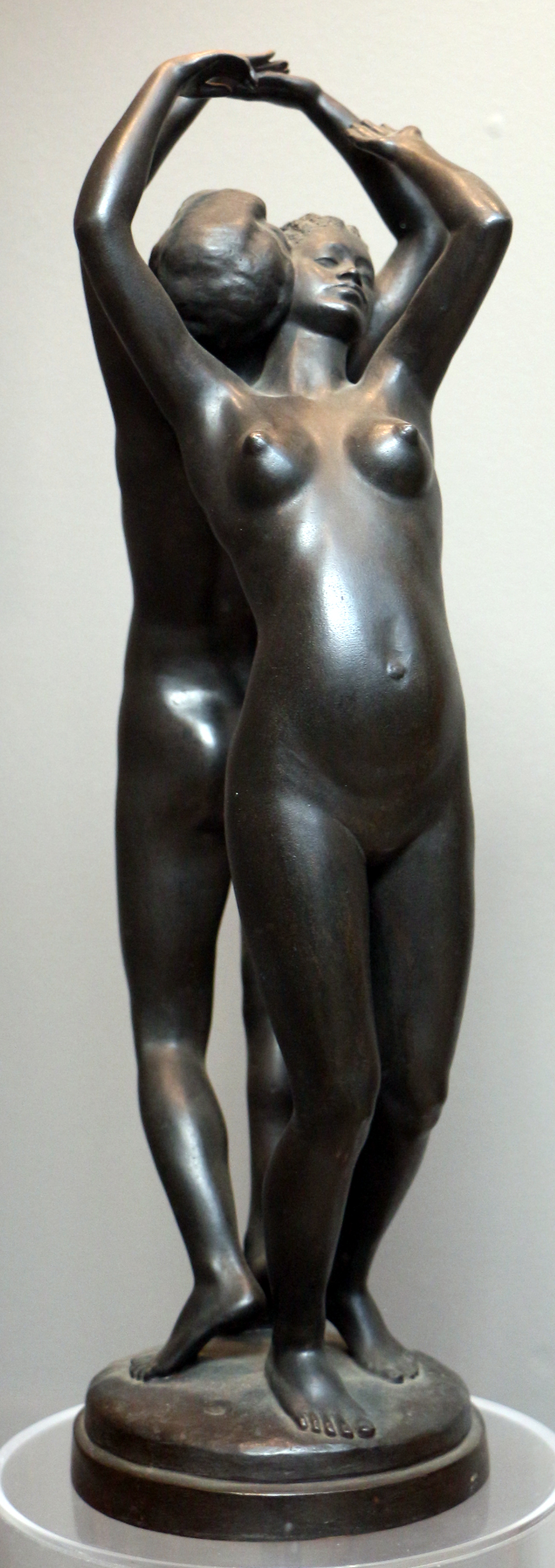 Museum of Ixelles